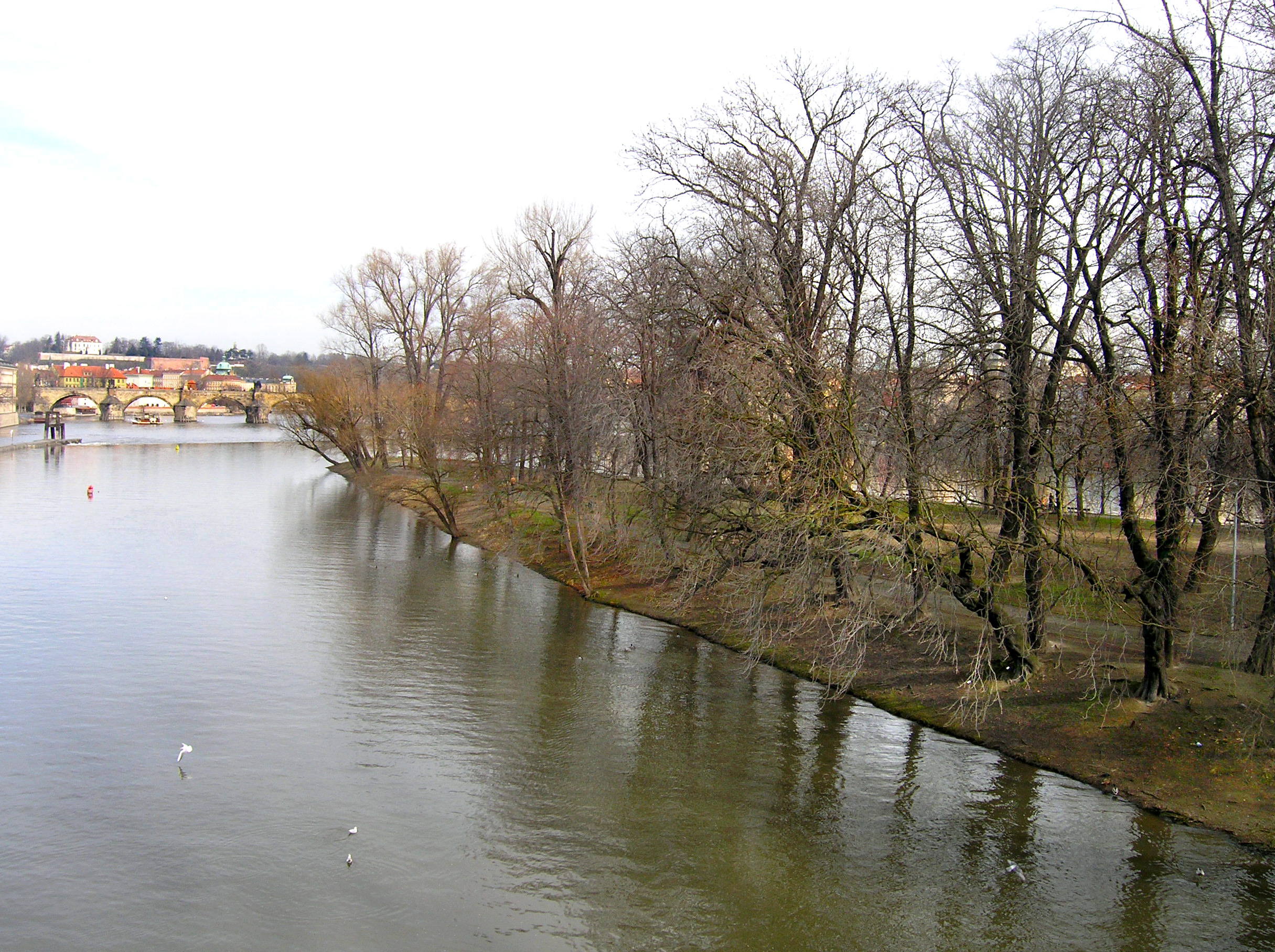 Střelecký island, Prague